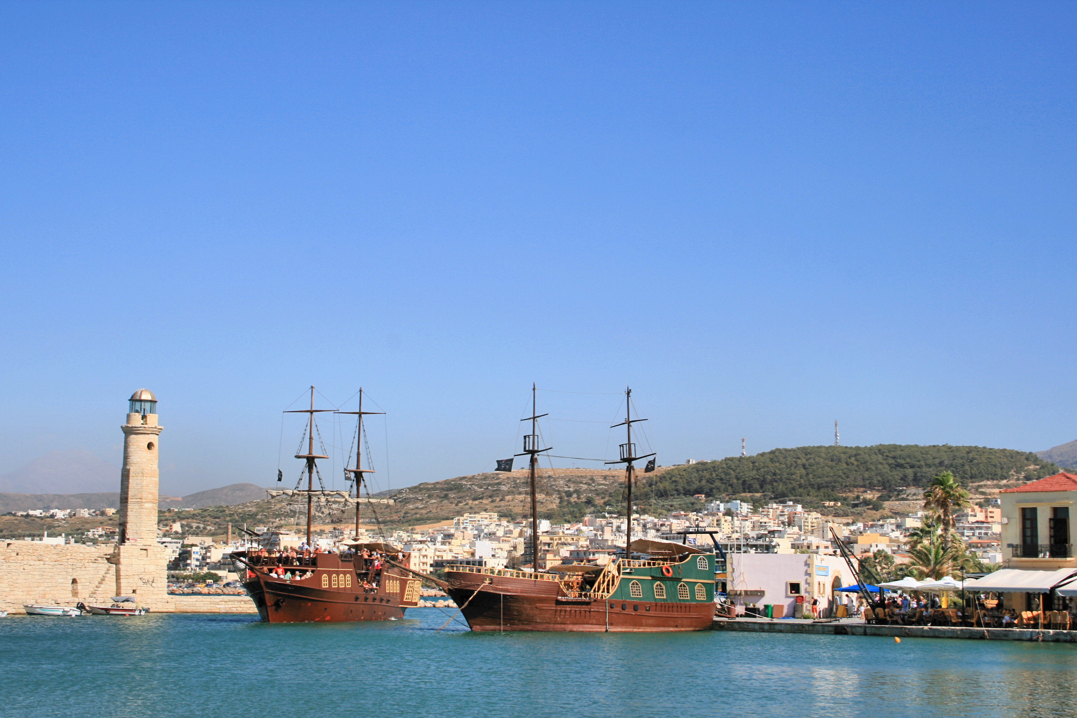 Rethymno on the island of Crete - Venetian harbor